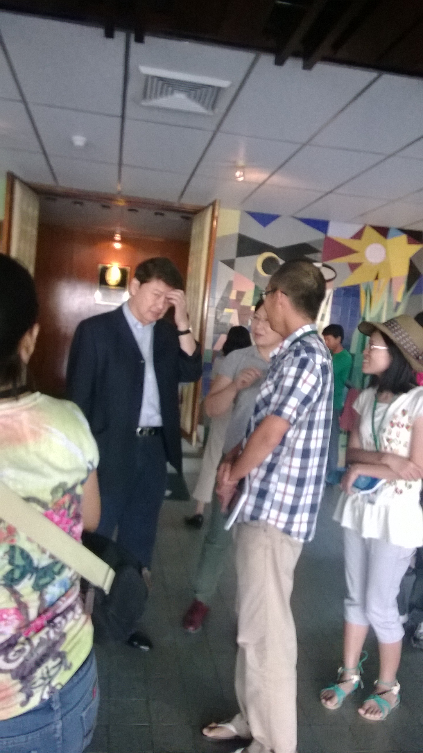 Photographed with my Nokia Lumia 620 Mobile Phone during the person's speaking engagement here.